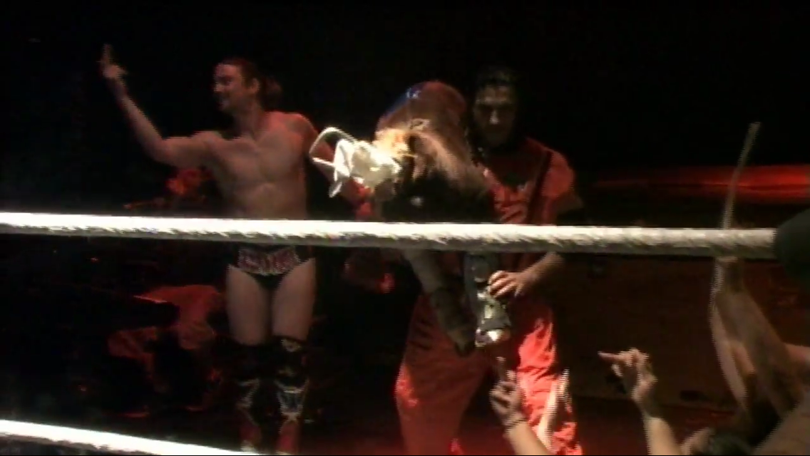 Personal photo taken at Hoodslam at an event in early 2015